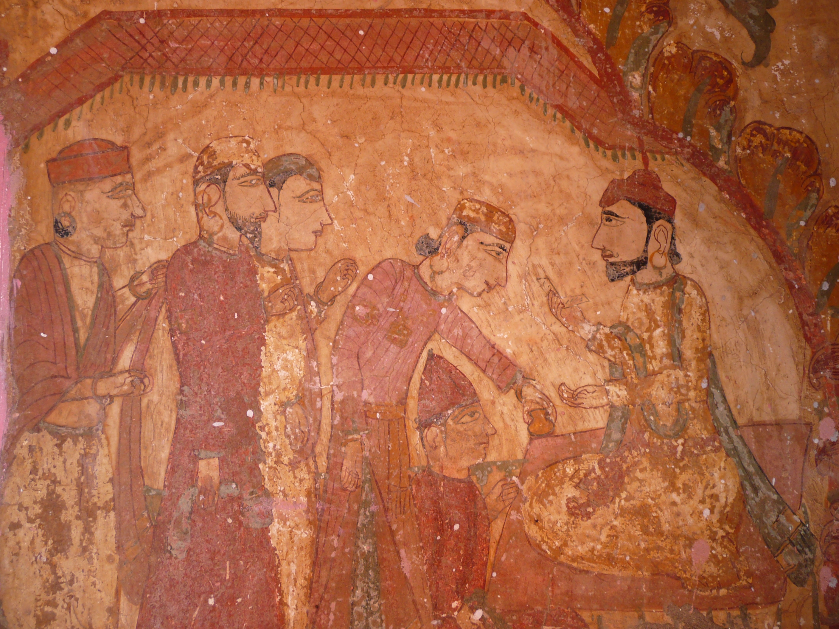 Very Ancient Wall Painting On Roof's of Shiva Temple in Payal, Ludhiana, Punjab, India